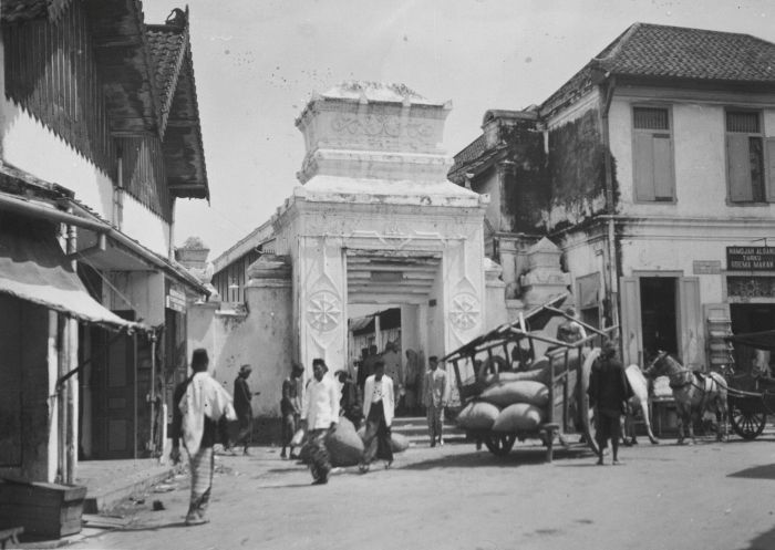 Gate near the Ampel Mosque in Surabaya's Arab quarter (edit: this gate is the southern gate to the bazaar that leads to the Ampel Mosque. It still stands and looks almost the same now in December 2012, 85 years later.)